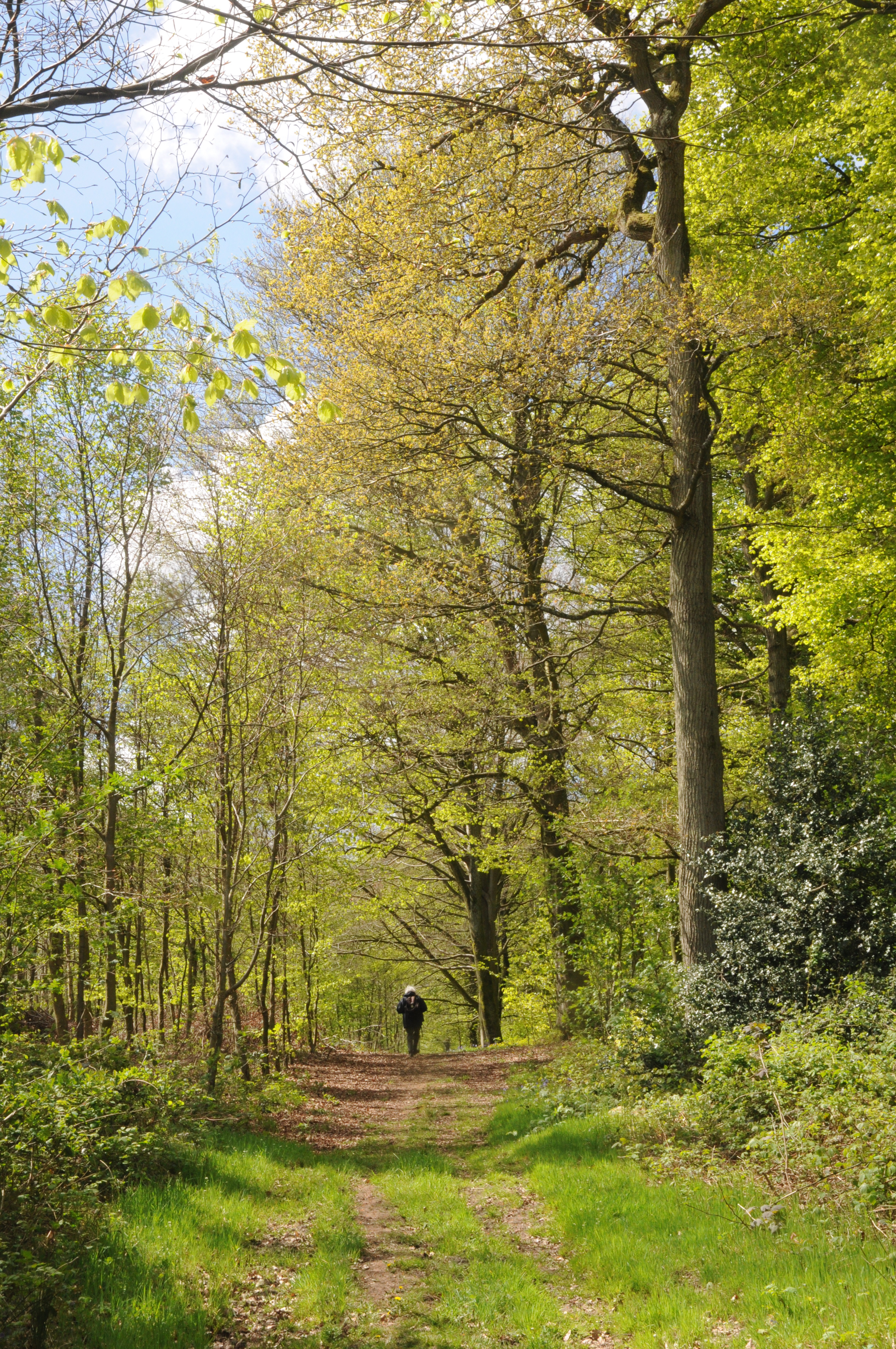 Foret domaniale de Desvres - Sentier de randonnée GR 121